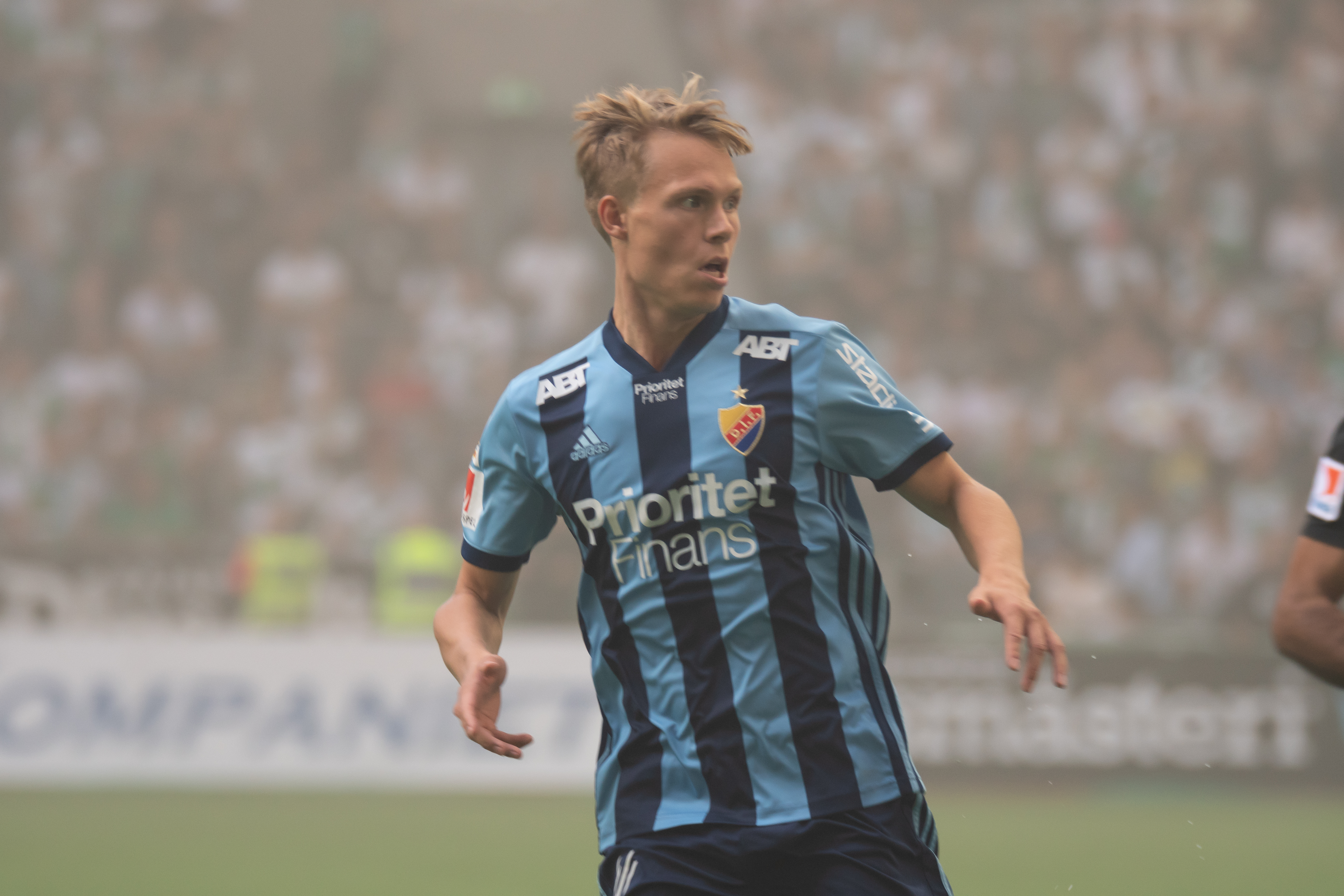 Hammarby-Djurgården 2018-09-03